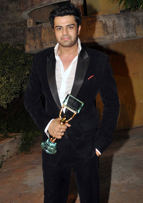 Manish Paul won the best anchor 2012 award at Indian Television Academy Award 2012.